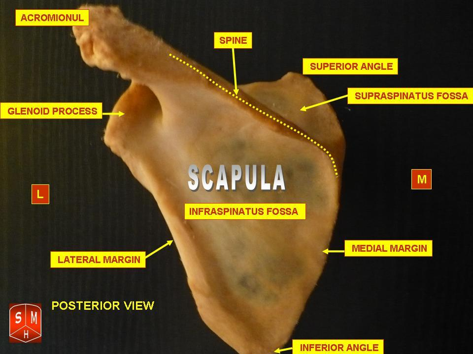 Posterior surface of scapula